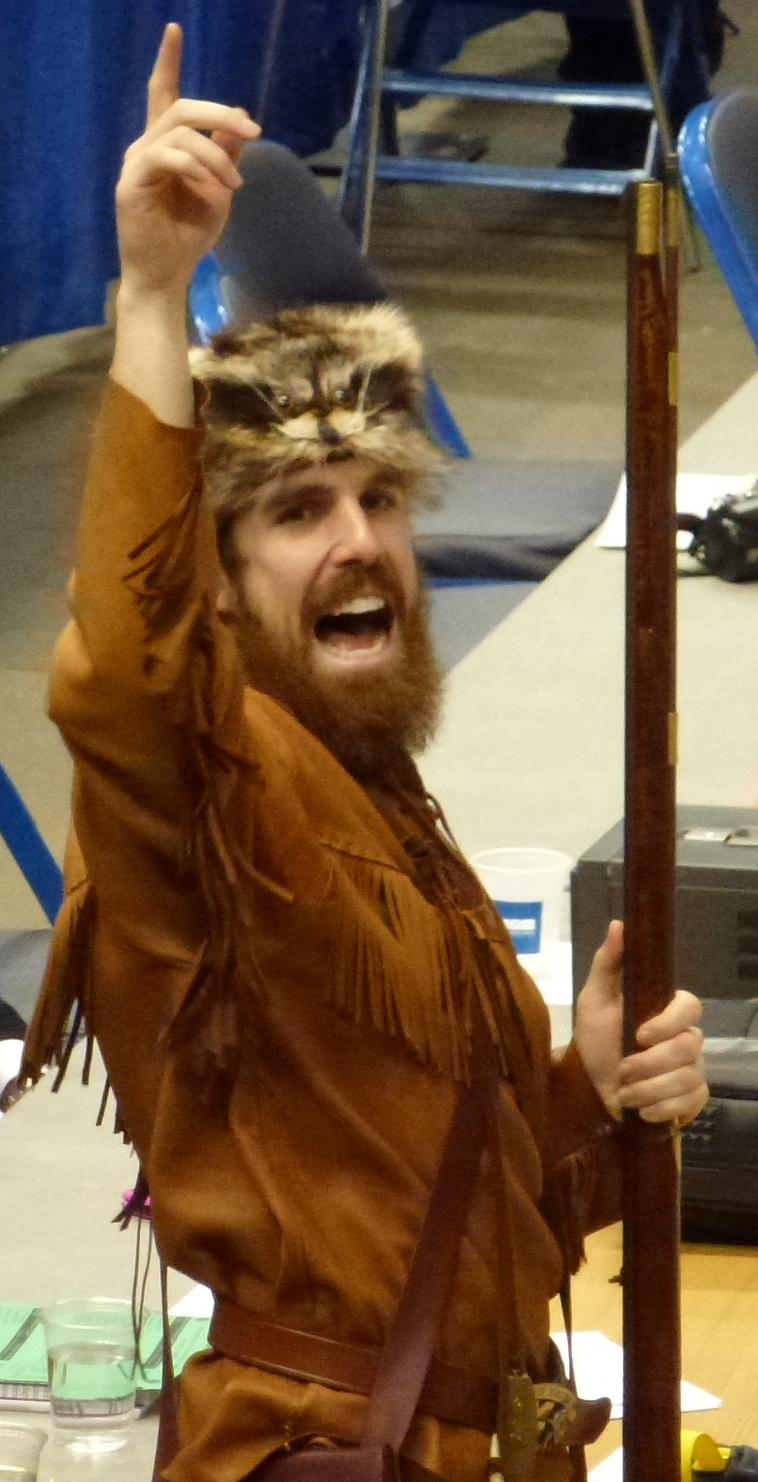 John, the 2012 West Virginia Mountaineer, cheering at the Big East Women's Basketball Tournament